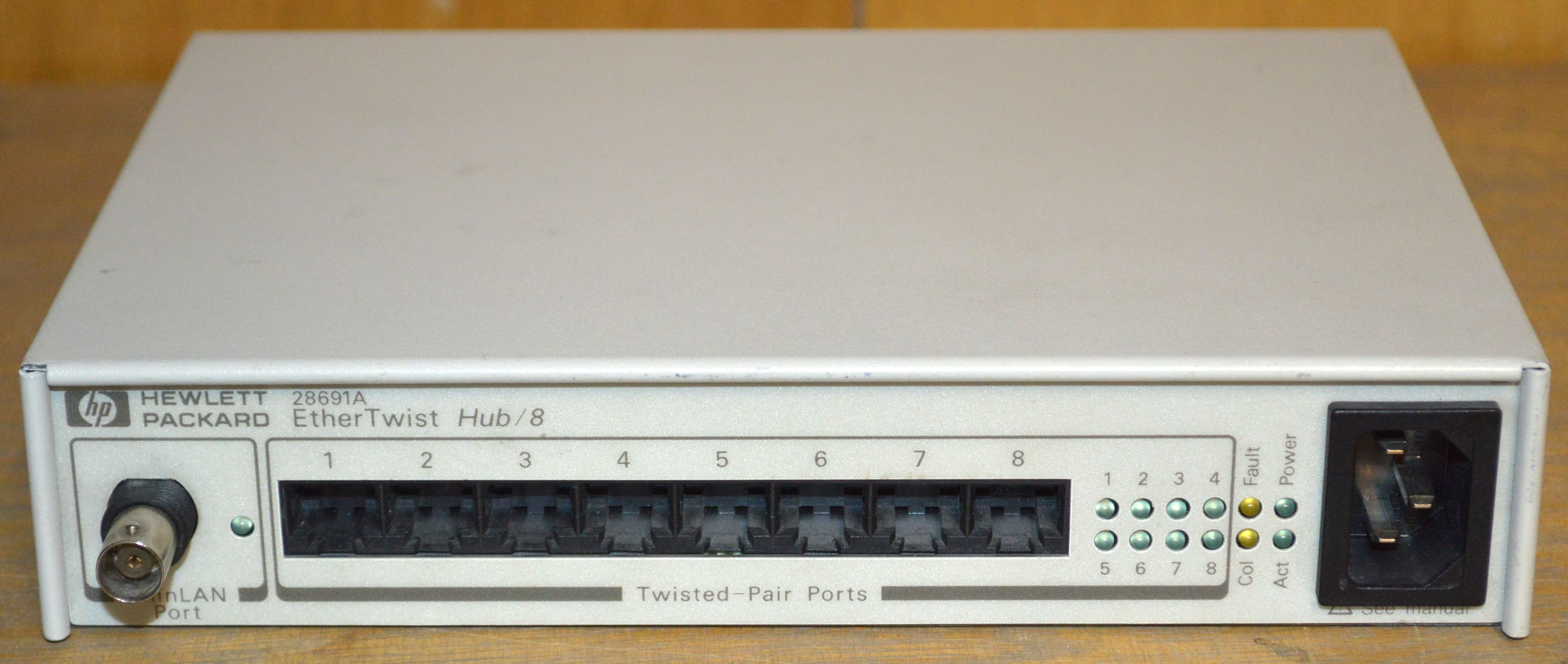 Hewlett Packard EtherTwist Hub/8 (28691A) 10BASE-T and 10BASE2 Ethernet hub